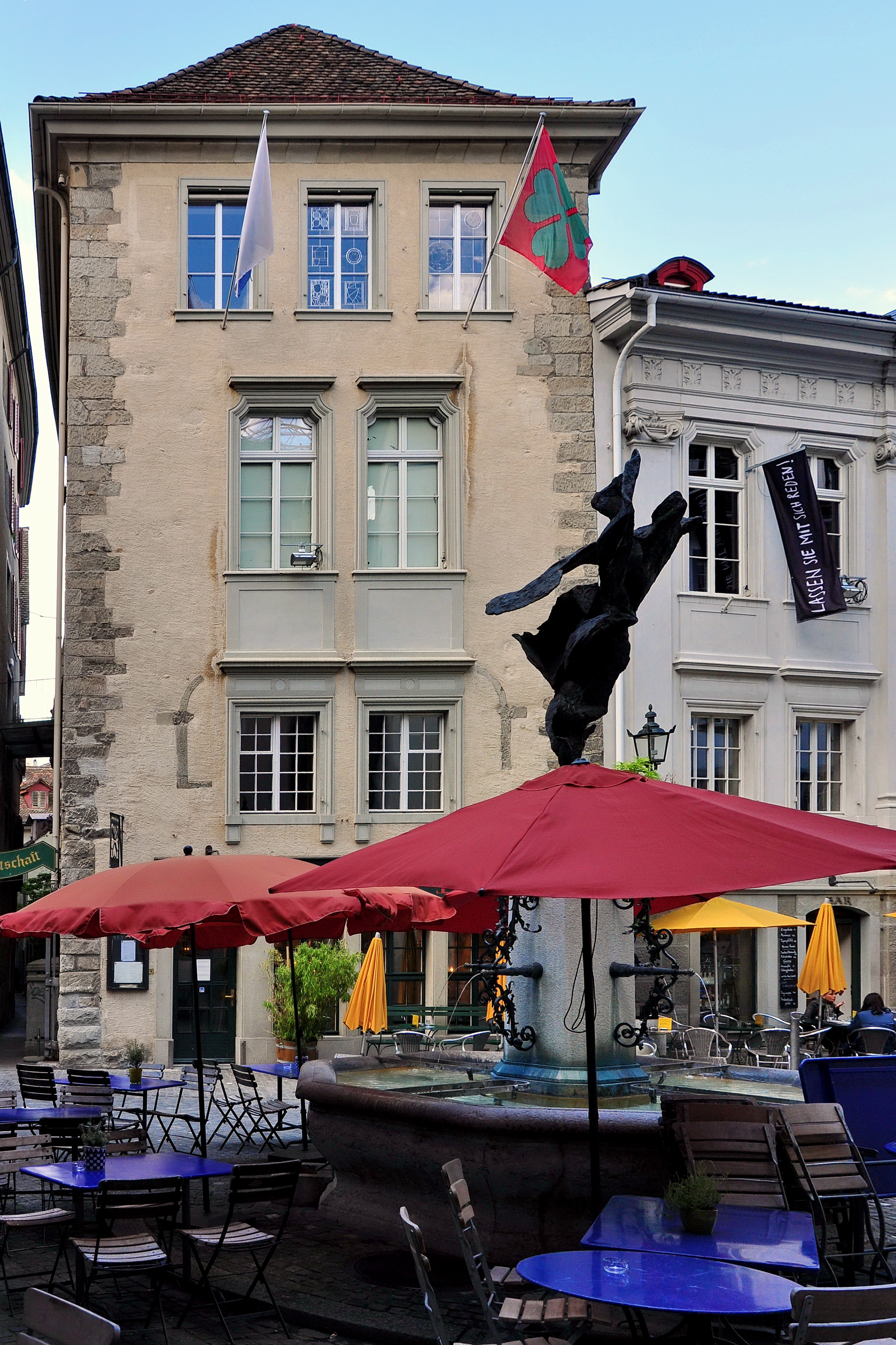 Zürich-Rathaus : Bilgeriturm (13th century) at Neumarkt, Nike fountain in the foreground, Theater am Neumarkt to the right, Synagogengasse to the left.